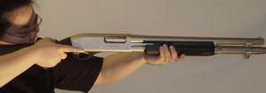 AH wielding a large nickel-plated tool.